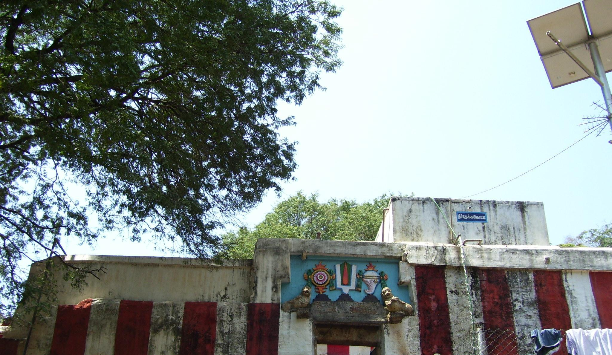 Malanambi Entrance